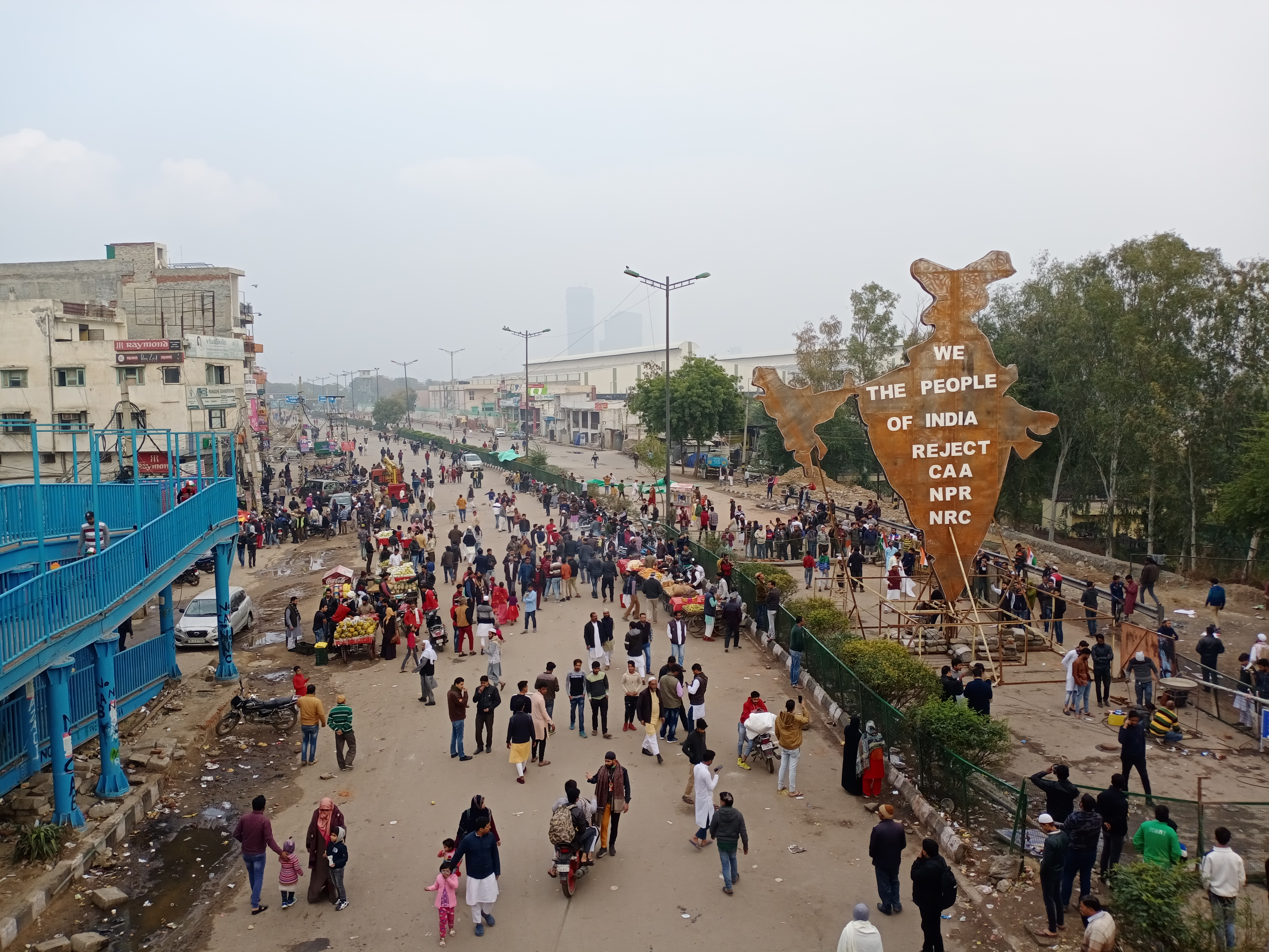 A huge art installation at the site of the Shaheen Bagh protests made by protesters 17 Jan 2020